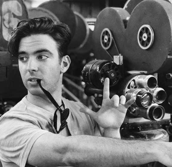 Jonah Feingold standing in front of a vintage 1920 film camera, in black and white, pointing for an actor to stand in a certain position.